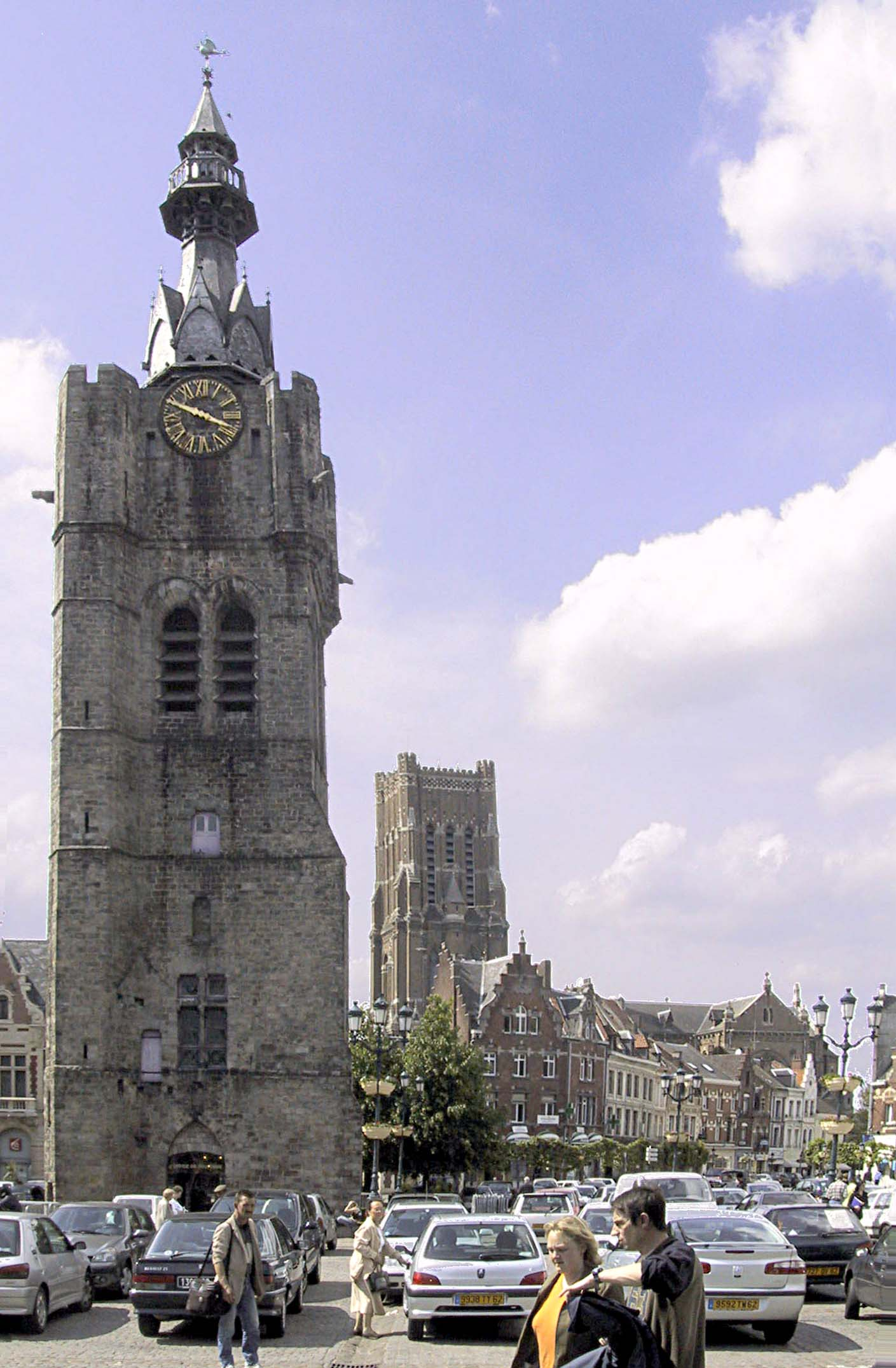 The belfry of Béthune